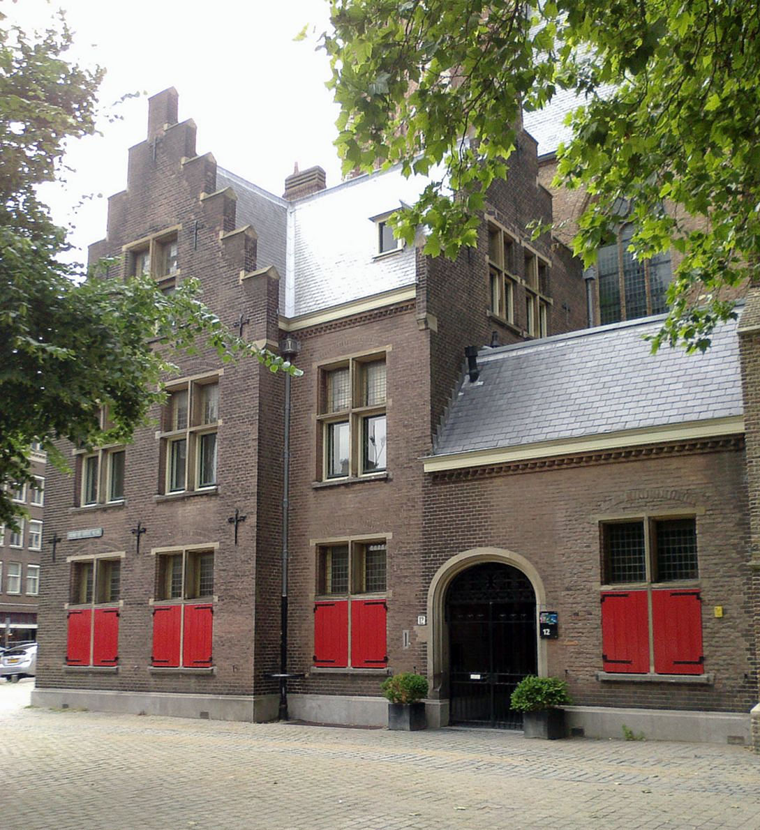 Sexton's house, Grote of Sint-Jacobskerk, The Hague